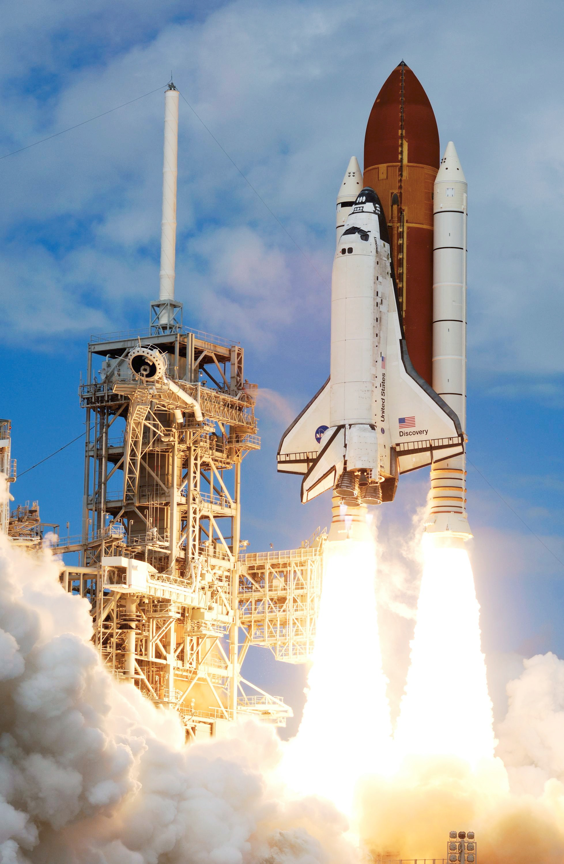 The Space Shuttle Discovery and its seven-member STS-120 crew head toward Earth-orbit and a scheduled link-up with the International Space Station. Liftoff from Kennedy Space Center's launch pad 39A occurred at 11:38:19 a.m. (EDT). Onboard are astronauts Pam Melroy, commander; George Zamka, pilot; Scott Parazynski, Stephanie Wilson, Doug Wheelock, European Space Agency's (ESA) Paolo Nespoli and Daniel Tani, all mission specialists.